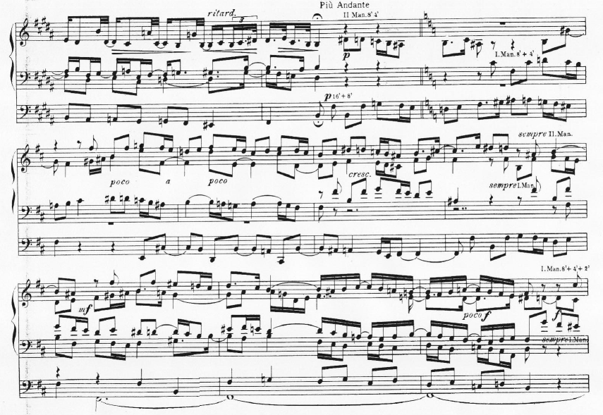 The beginning of the middle section of the second movement of the first suite for organ Op. 16 by Max Reger, the theme of which is based on the chorale Aus tiefer Not schrei ich zu dir